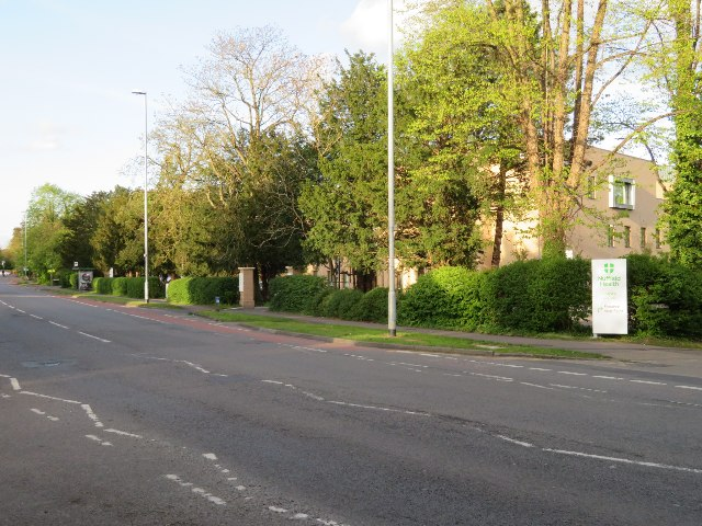 Nuffield Health - Trumpington Road